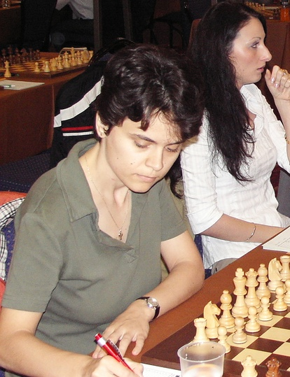 WGM Corina-Isabela Peptan (Romania), Heraklion 2007